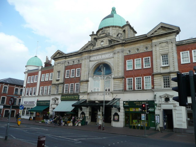 The Opera House, Tunbridge Wells The foundation stone of the Opera House was laid on 10th October 1901 by Mayor W. H. Delves and Sir Beerbohm Tree. It opened in 1902. After a while it became a bingo hall and now houses a Wetherspoons pub, although the impressive interior has been preserved.